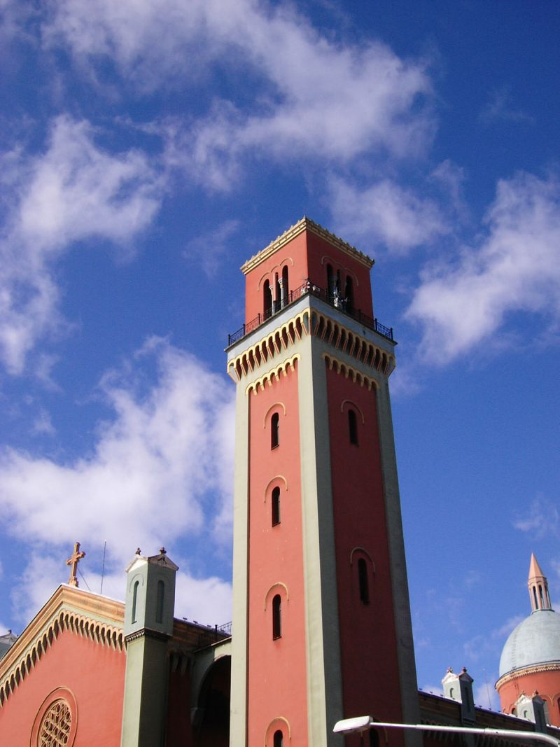 Evangelic church in Kezmarok